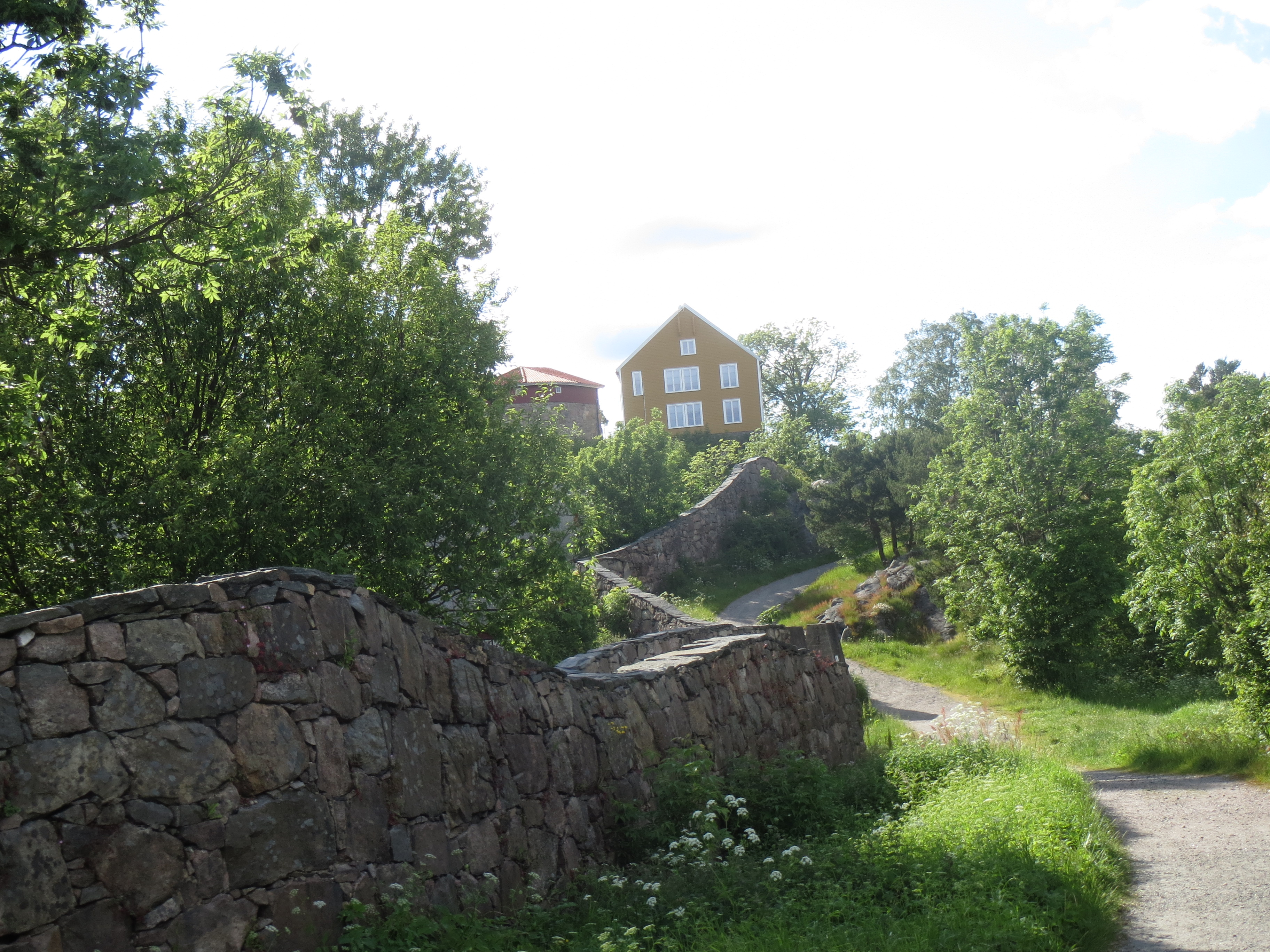 The wall built to protect and keep people out from the quarqntine station at Odderøya in Kristiansand, Norway